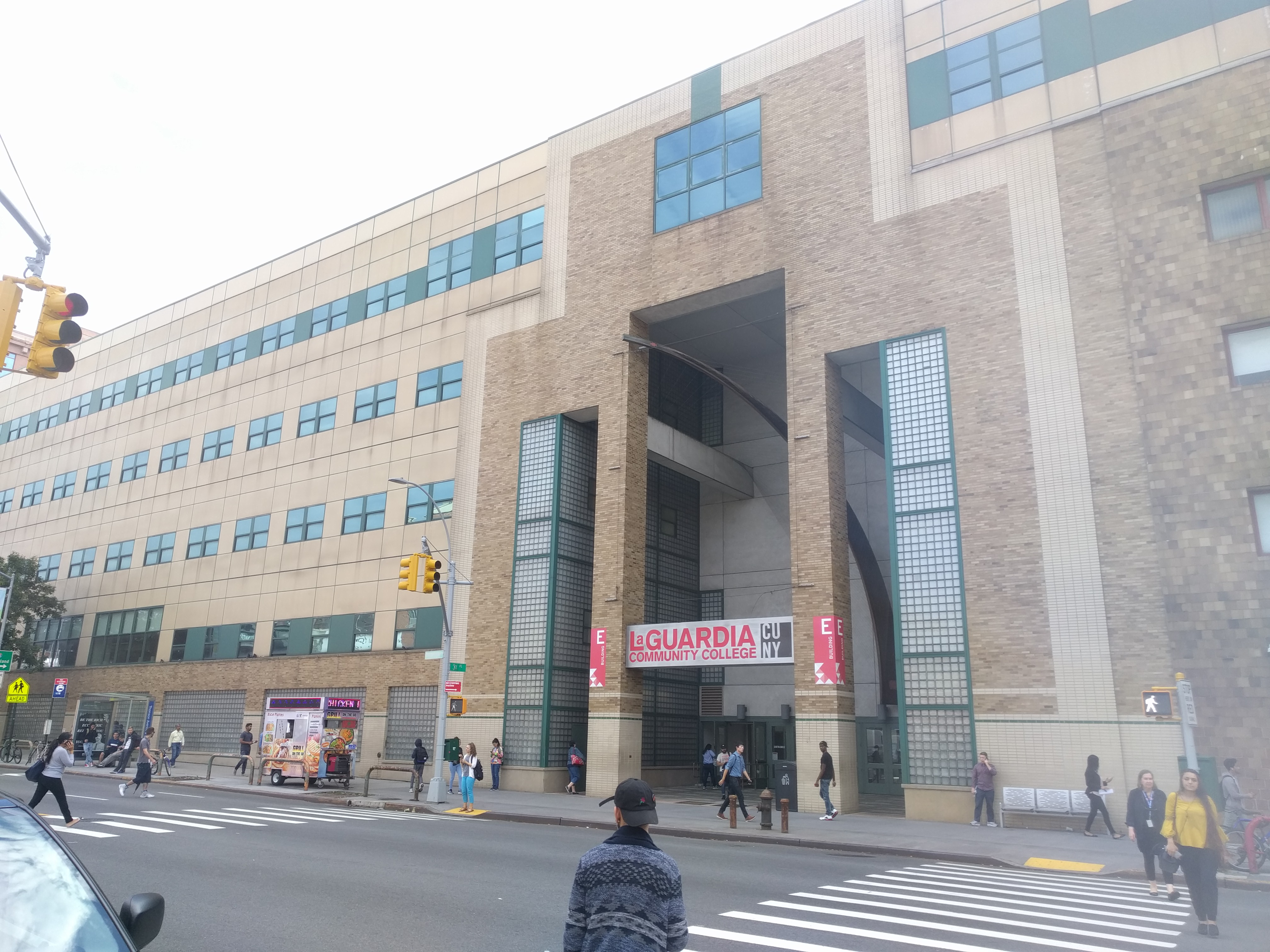 Looking southeast at Building E